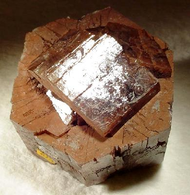 Aragonite Locality: Gallo river, Molina de Aragón, Guadalajara, Castile-La Mancha, Spain (Locality at ) Size: miniature, 4.6 x 4.6 x 3.9 cm Aragonite (floater) Large hexagonal crystal from the type locality showing four generations of growth. The luster on the sides is excellent, and the perfect form makes this an attractive and desirable specimen. Unavoidable minor dings in just a few spots.